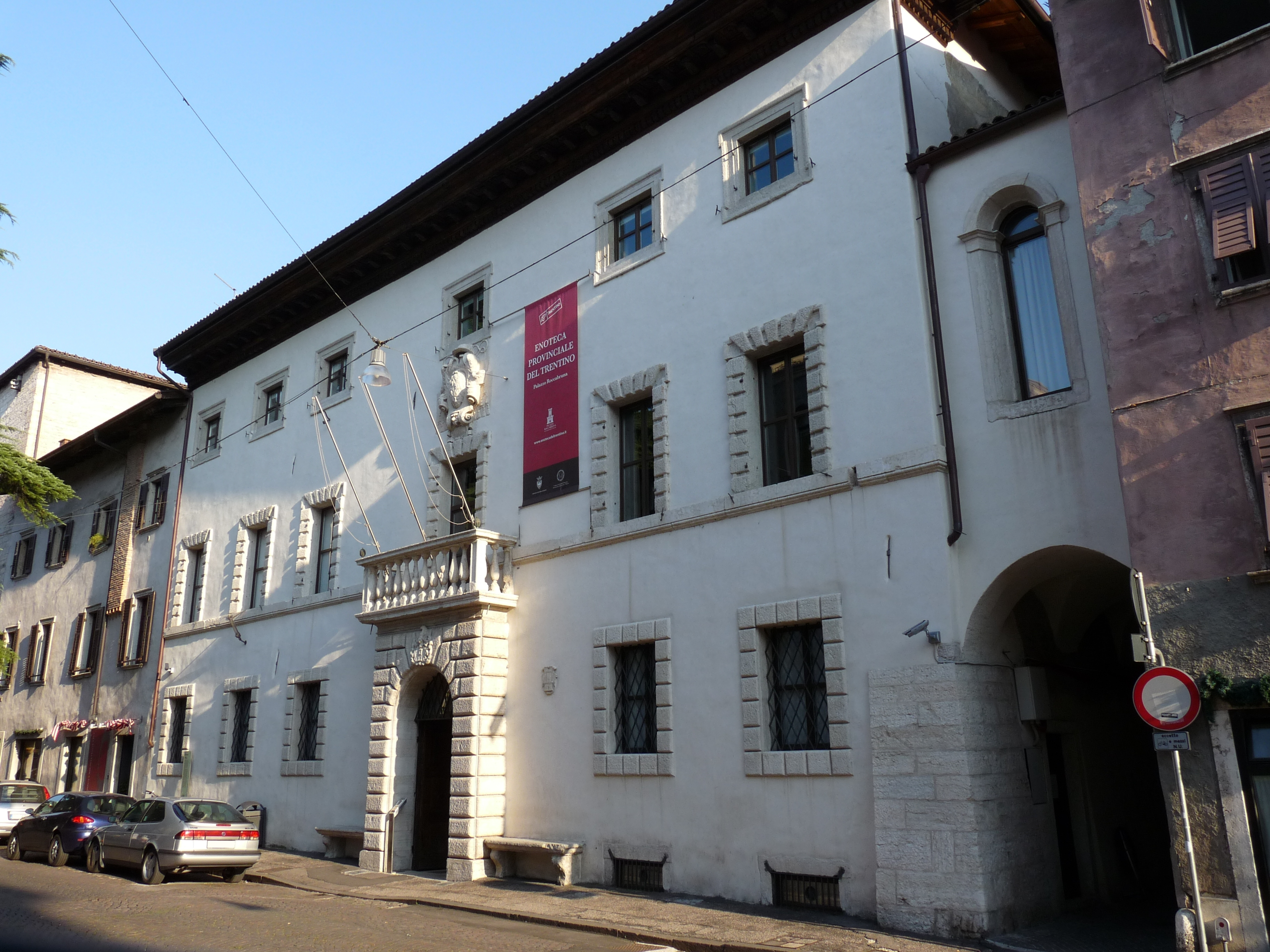 Trento (Italy): Palazzo Roccabruna (XVI century). On the right, the Gaudenti alley, with the chapel dedicated to saint Jerome above